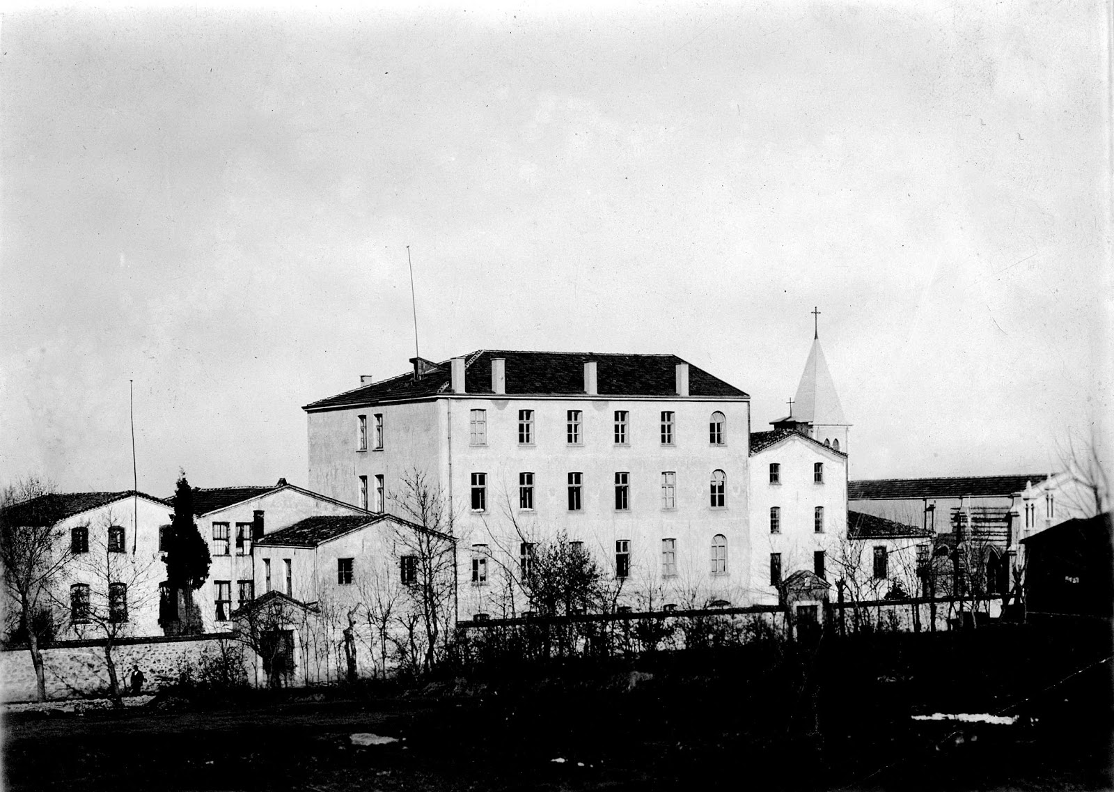 Georgian Catholic Monastery complex in Constantinople (at Ottoman era). Now some buildings does not exist..